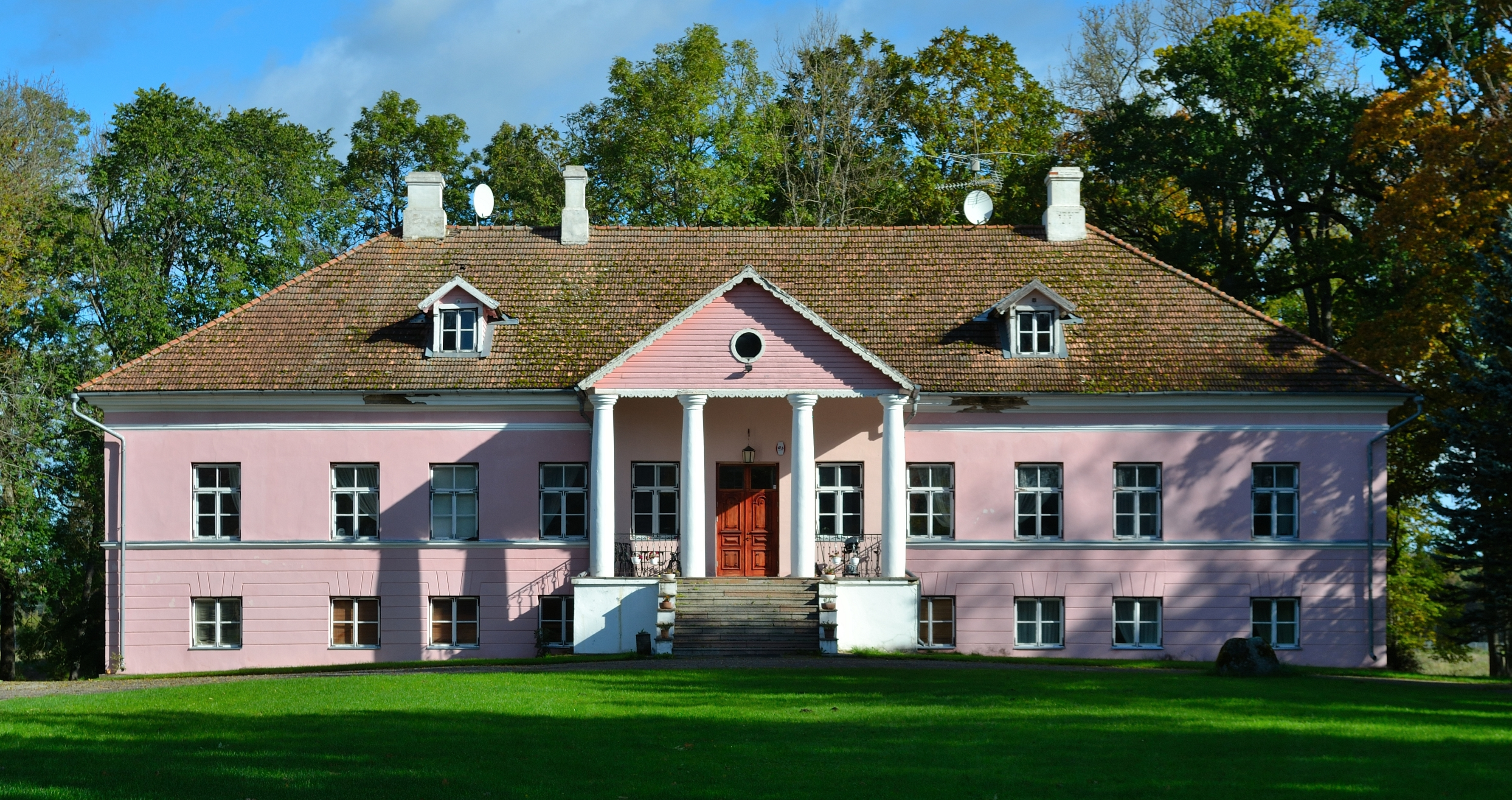 Järlepa manor main building This photograph was taken with a Nikon D3100